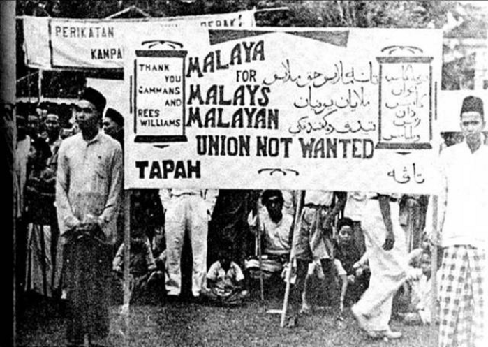 After the British returned to Malaya in the aftermath of World War II, the Malayan Union was formed. However, the Union was met with much opposition due to its constitutional framework, which allegedly threatened Malay sovereignty over Malaya. The event sparked the first major show of force by Malay nationalism, which eventually resulting the formation of Federation of Malaya in 1948.